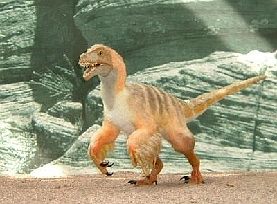 Life restoration model of a Deinonychus as a feathered animal in the Palmengarten in Frankfurt am Main, Germany.